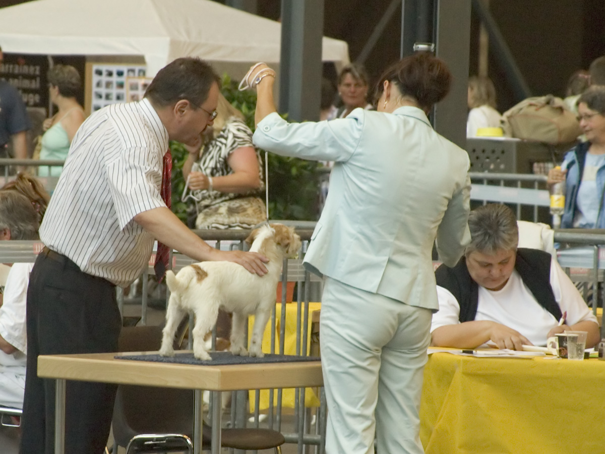 Dog Show